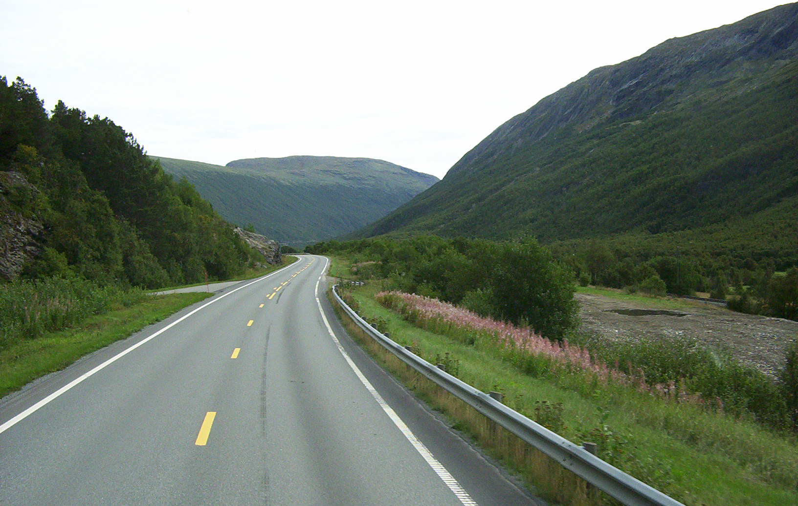 An asphalt road somewhere in Norway